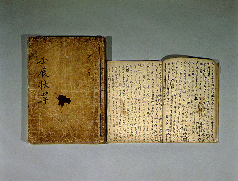 Nanjunilgi Diary during Japanese invasions of Korea (1592–98) and Album of Caligraphy by Yi, Sunsin